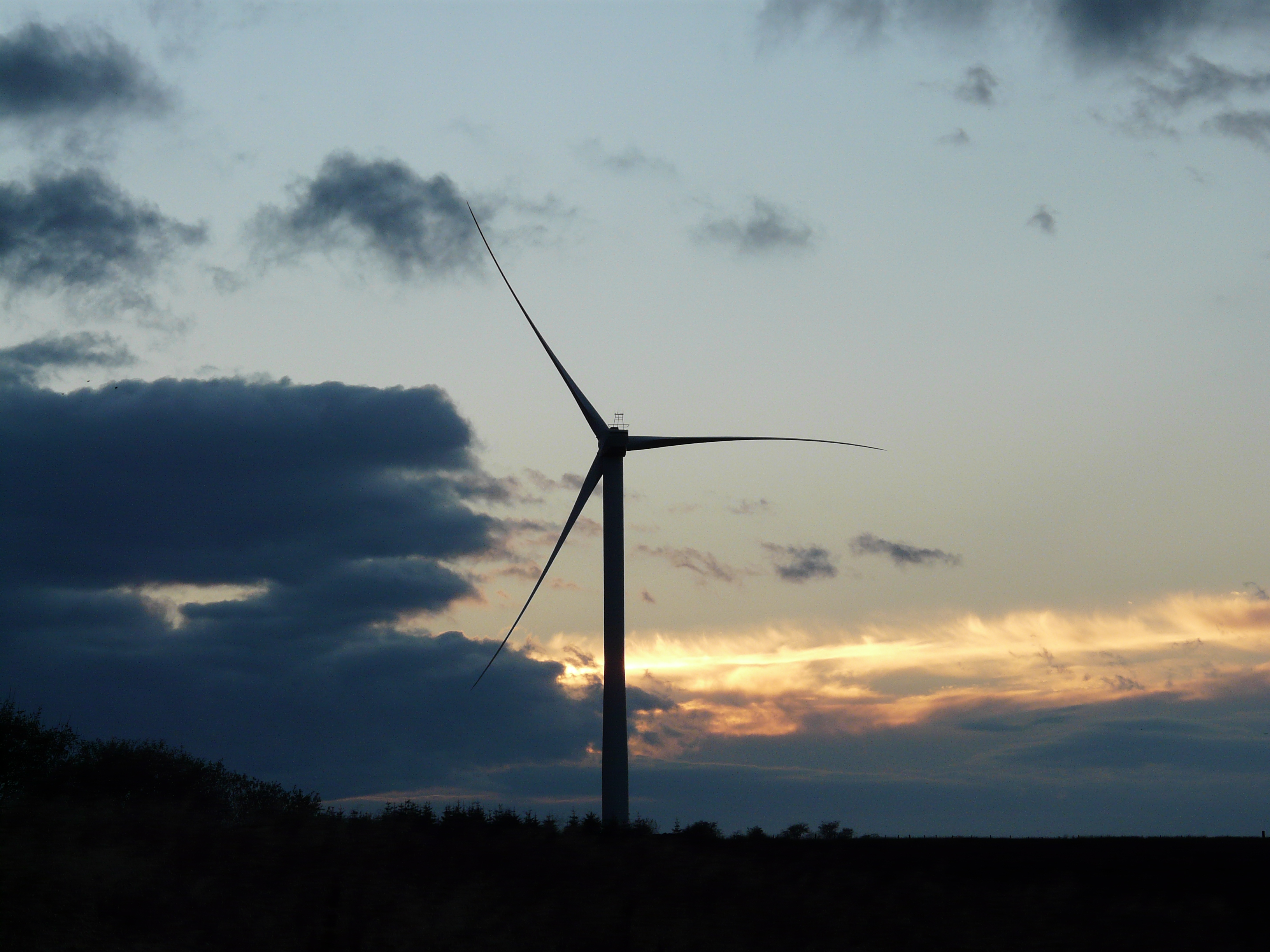 This is a view of one of the turbines at Greendykeside, near Longriggend, North Lanarkshire, Scotland (see Upperton, North Lanarkshire). Picture taken looking West